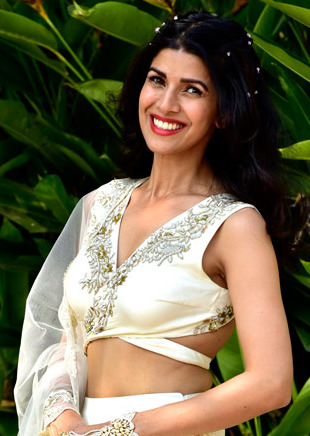 Nimrat Kaur snapped attending the Lakme Fashion Week 2018